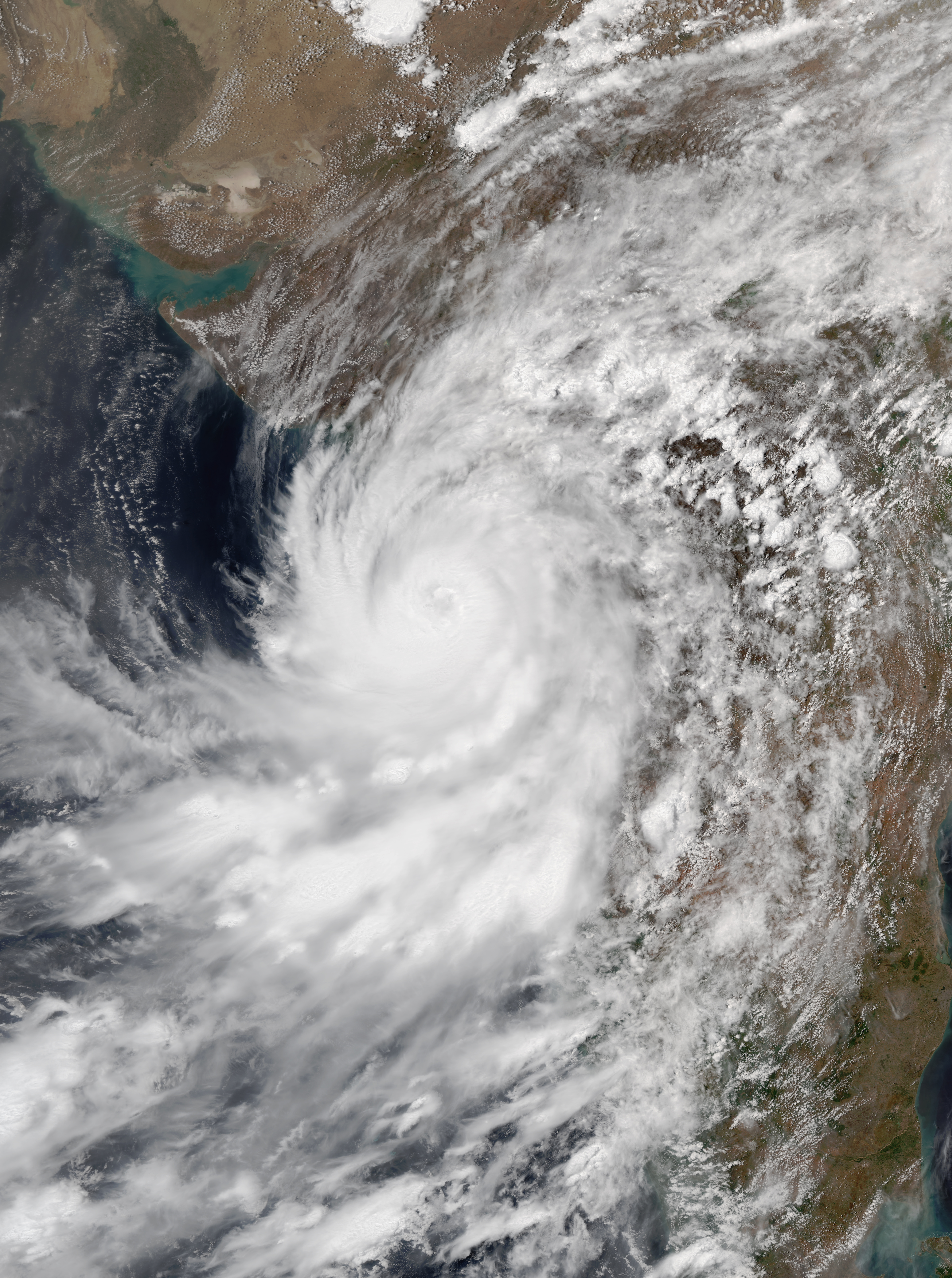 NOAA-20 VIIRS image of Severe Cyclonic Storm Nisarga on June 3, 2020.